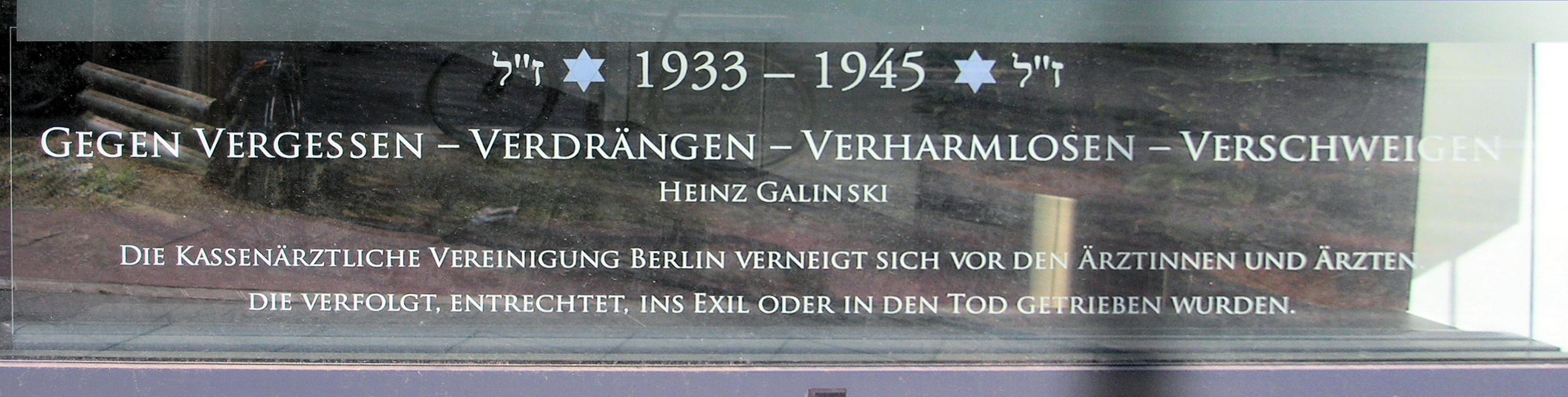 Memorial plaque, Jüdische Kassenärzte, Masurenallee 6A, Berlin-Westend, Germany Koordinate:52°30′26″N 13°16′41″E / 52.50722°N 13.27806°E